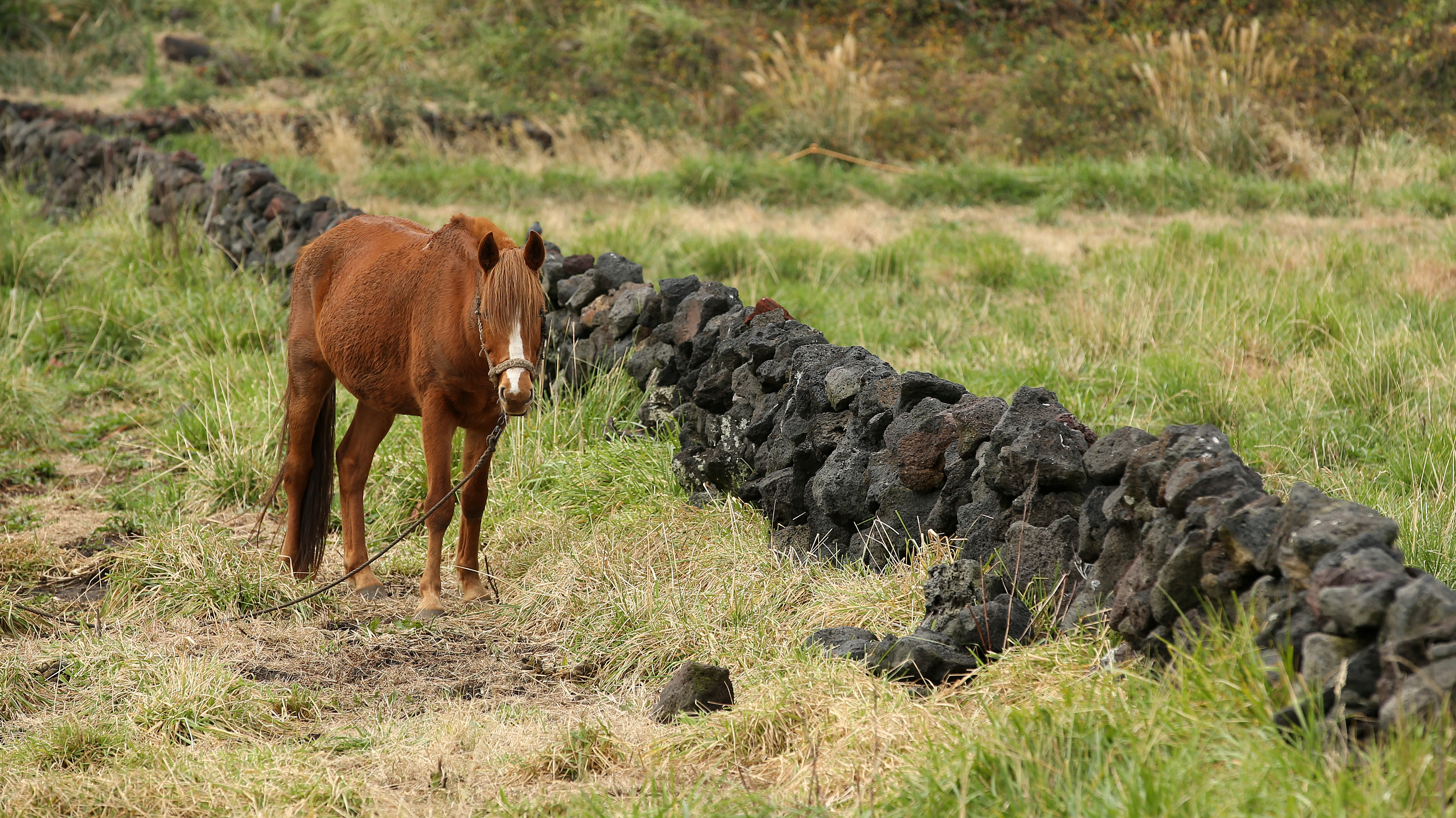 Equus caballus